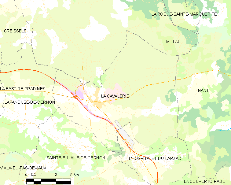 Map commune FR insee code 12063.png - La Cavalerie